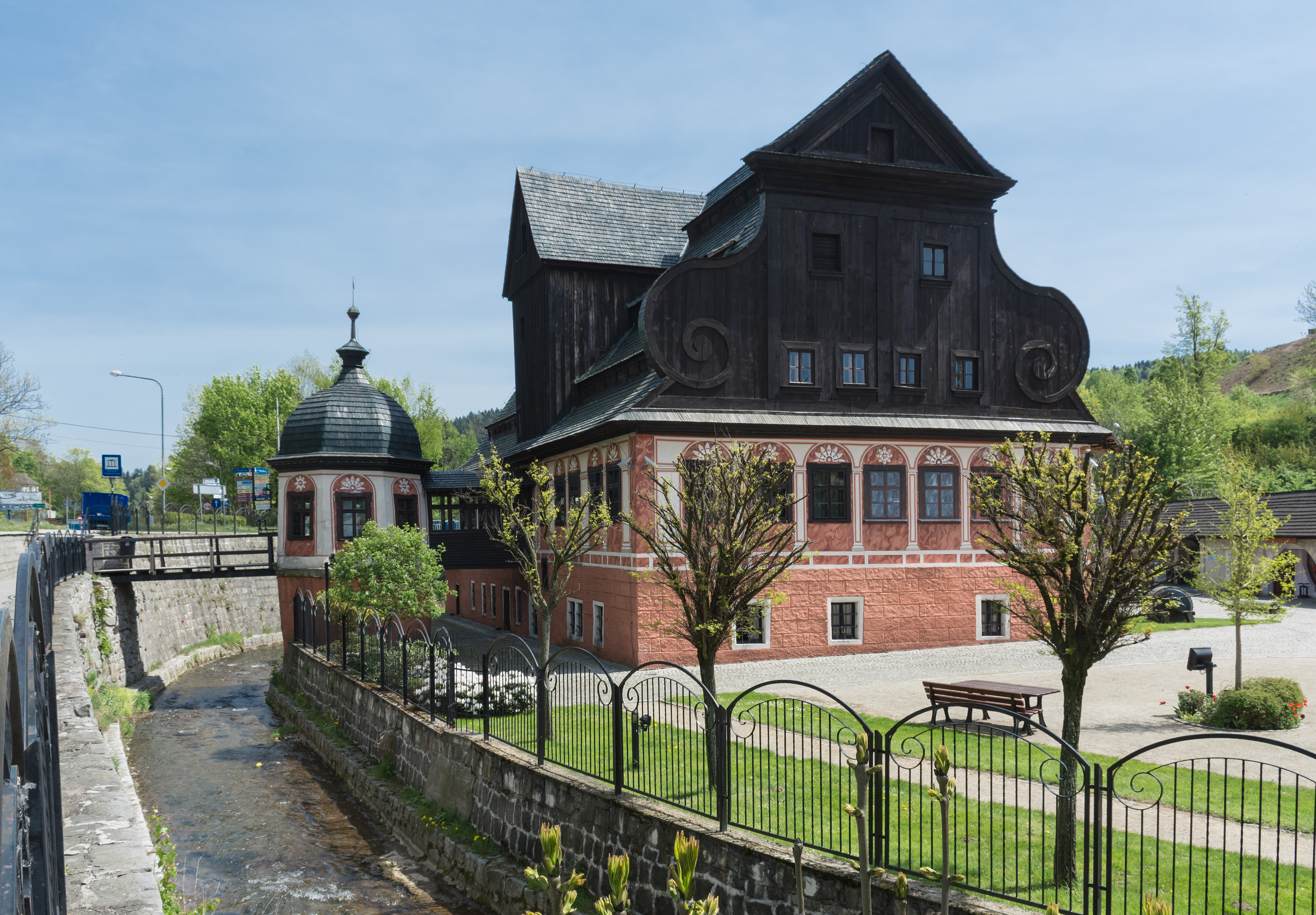 Museum of Papermaking in Duszniki-Zdrój